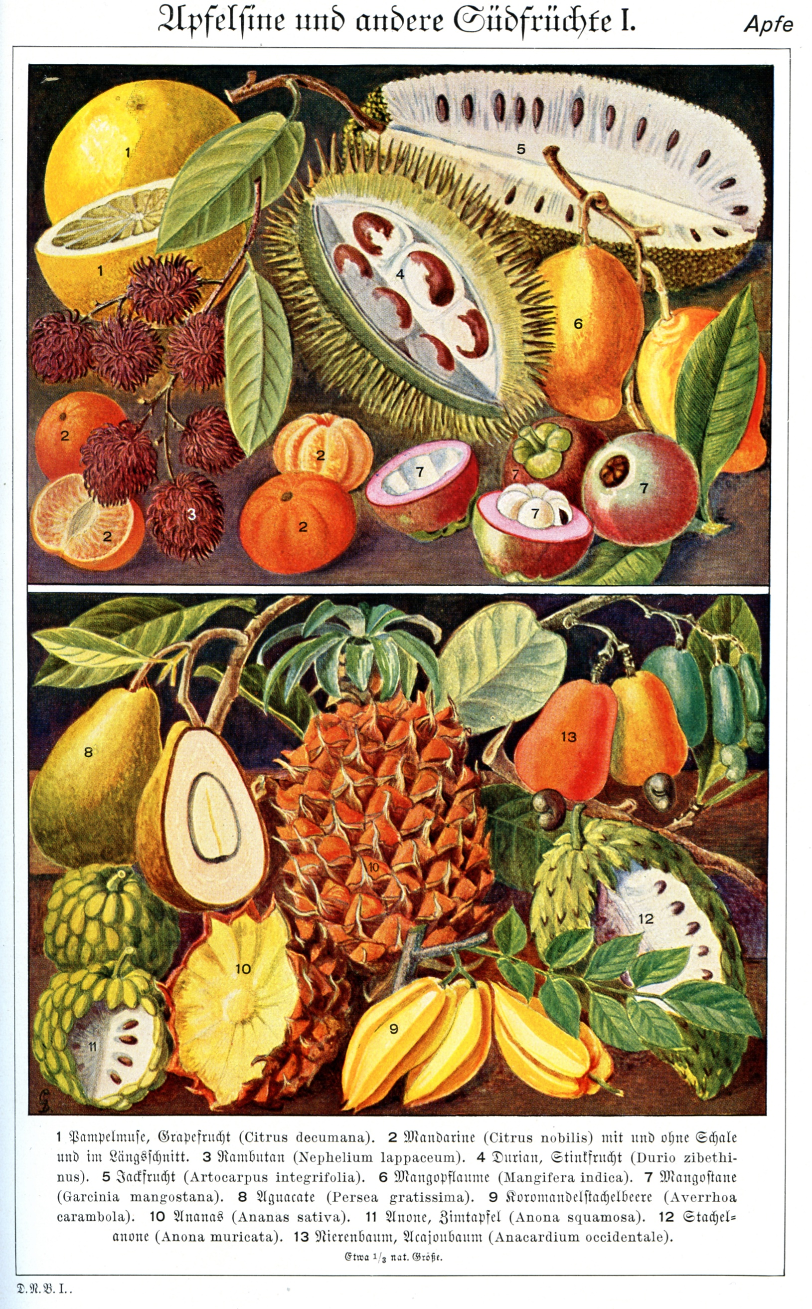 Oranges and other fruits